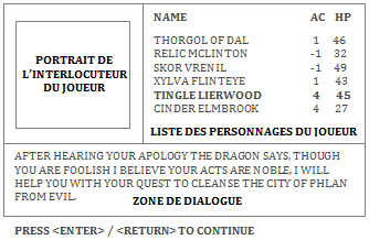 Diagram showing the functionalities of the interface of dialogue in the video game Pool of Radiance (1988).